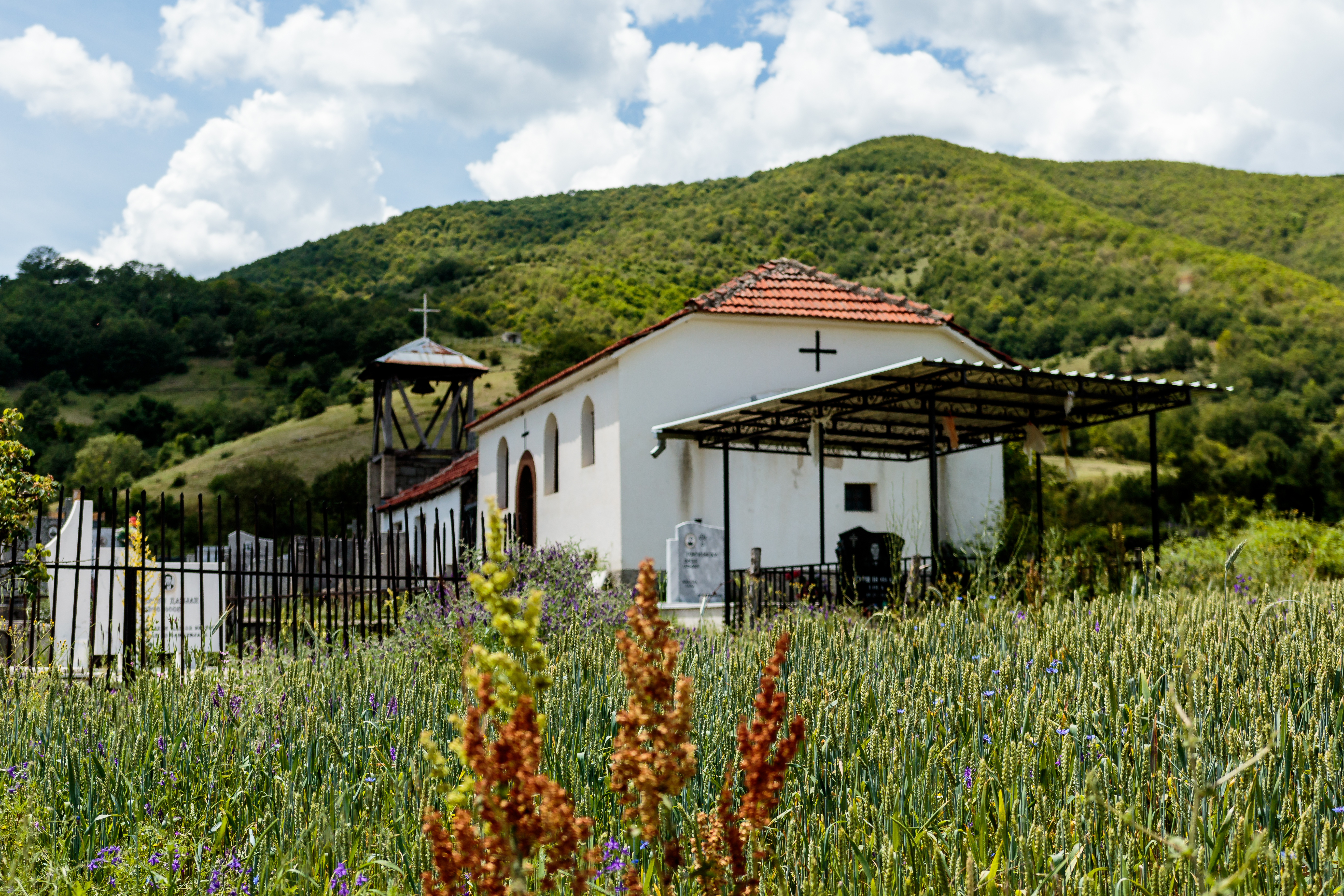 Church in the village Obednik